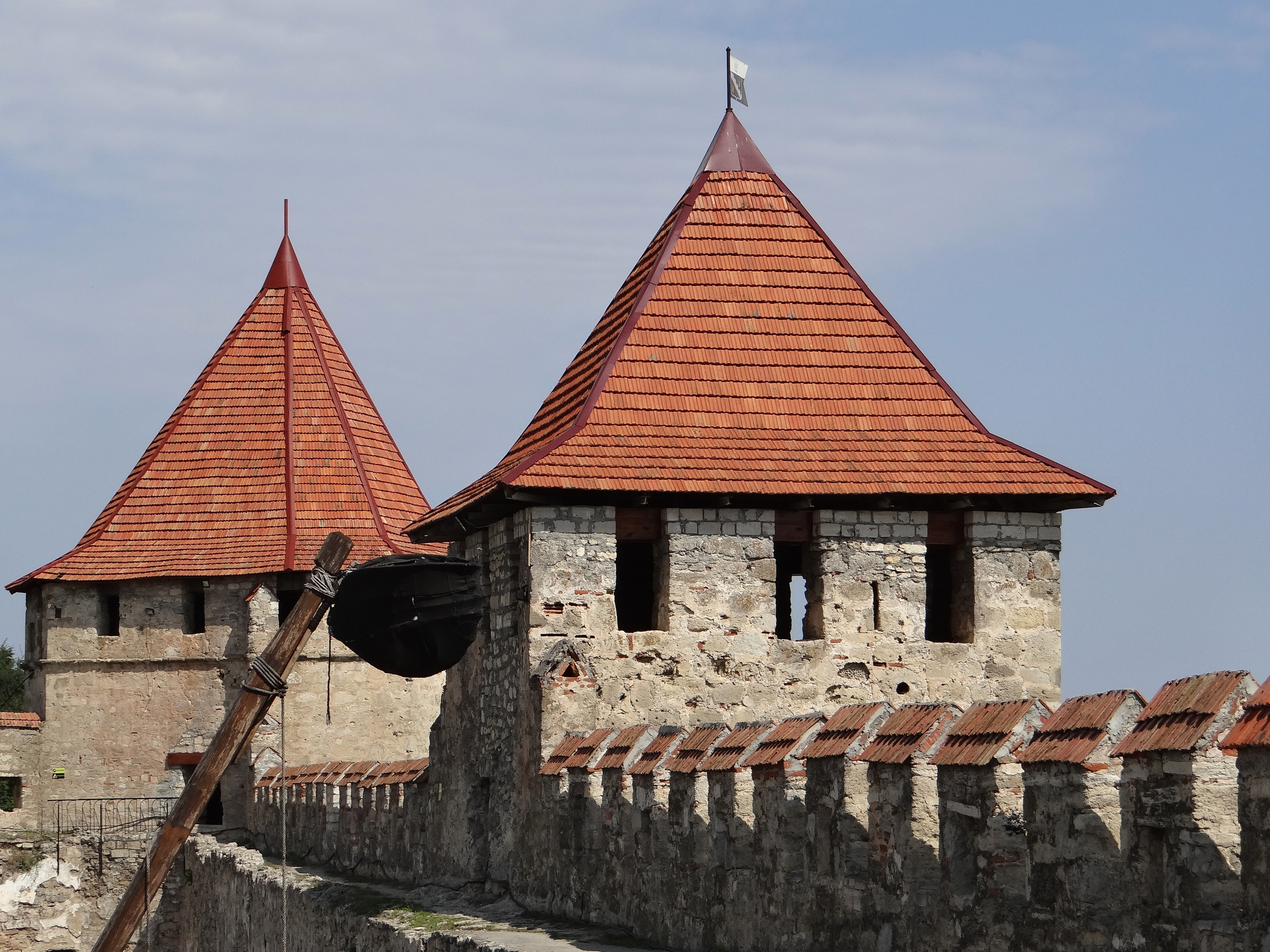 Bendery Fortress - Bendery - Transnistria - 07